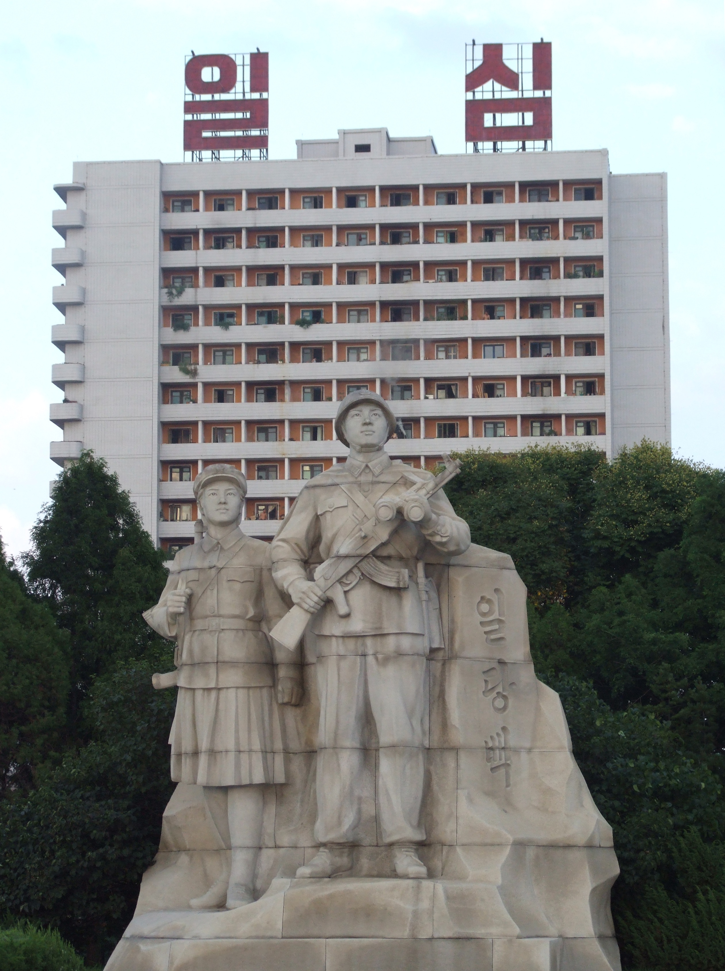 Sculpture at Juche Tower in Pyongyang